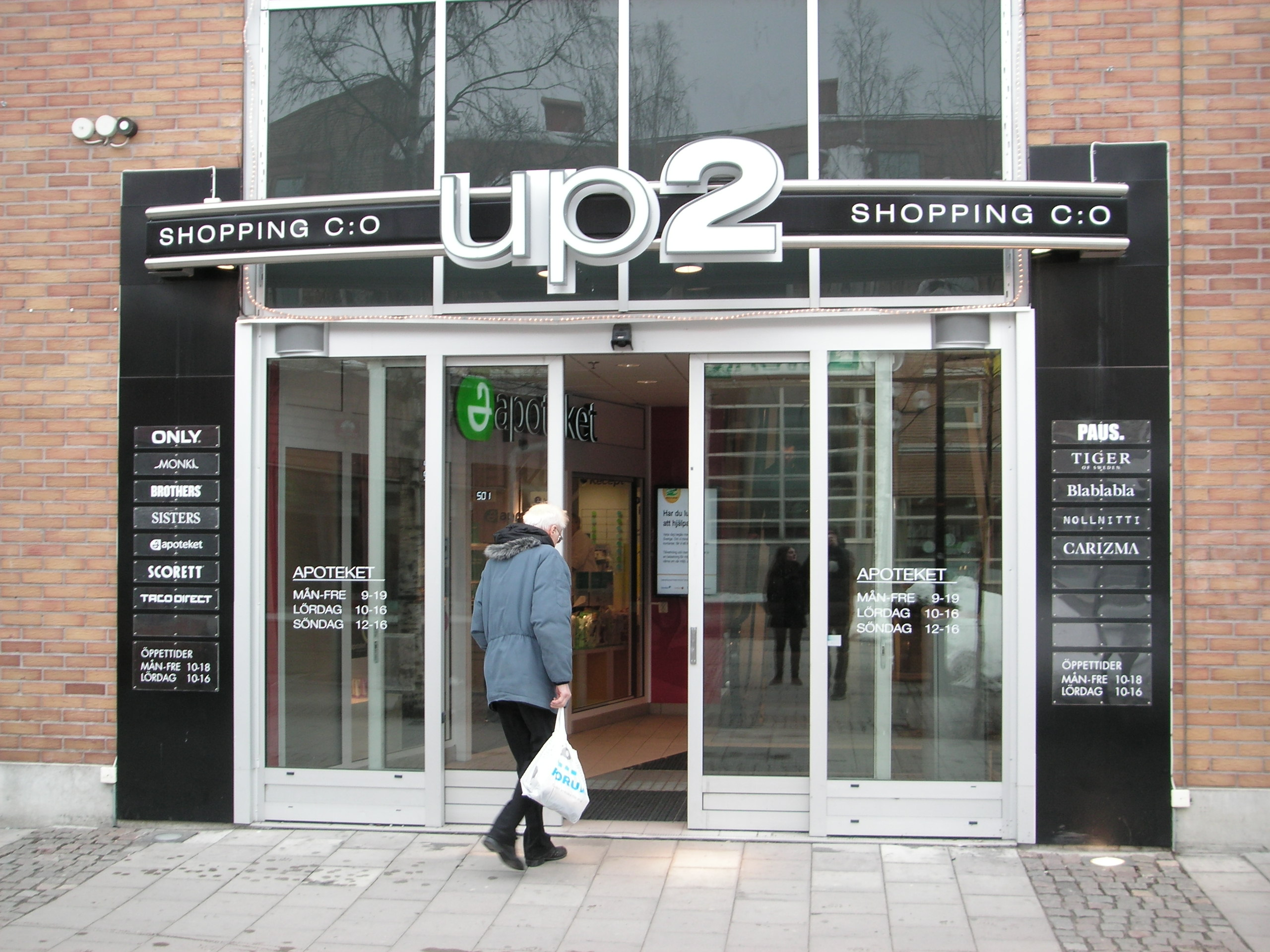 Up2 mall in Umeå, Sweden.